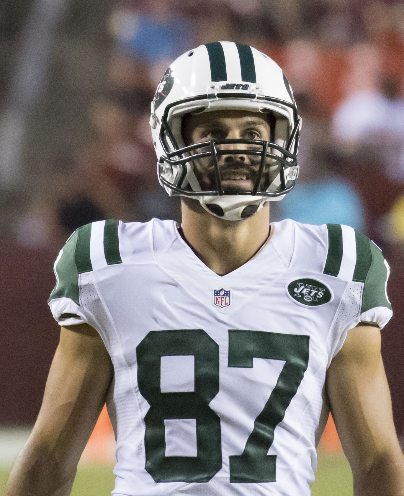 Jets at Redskins 8/19/16